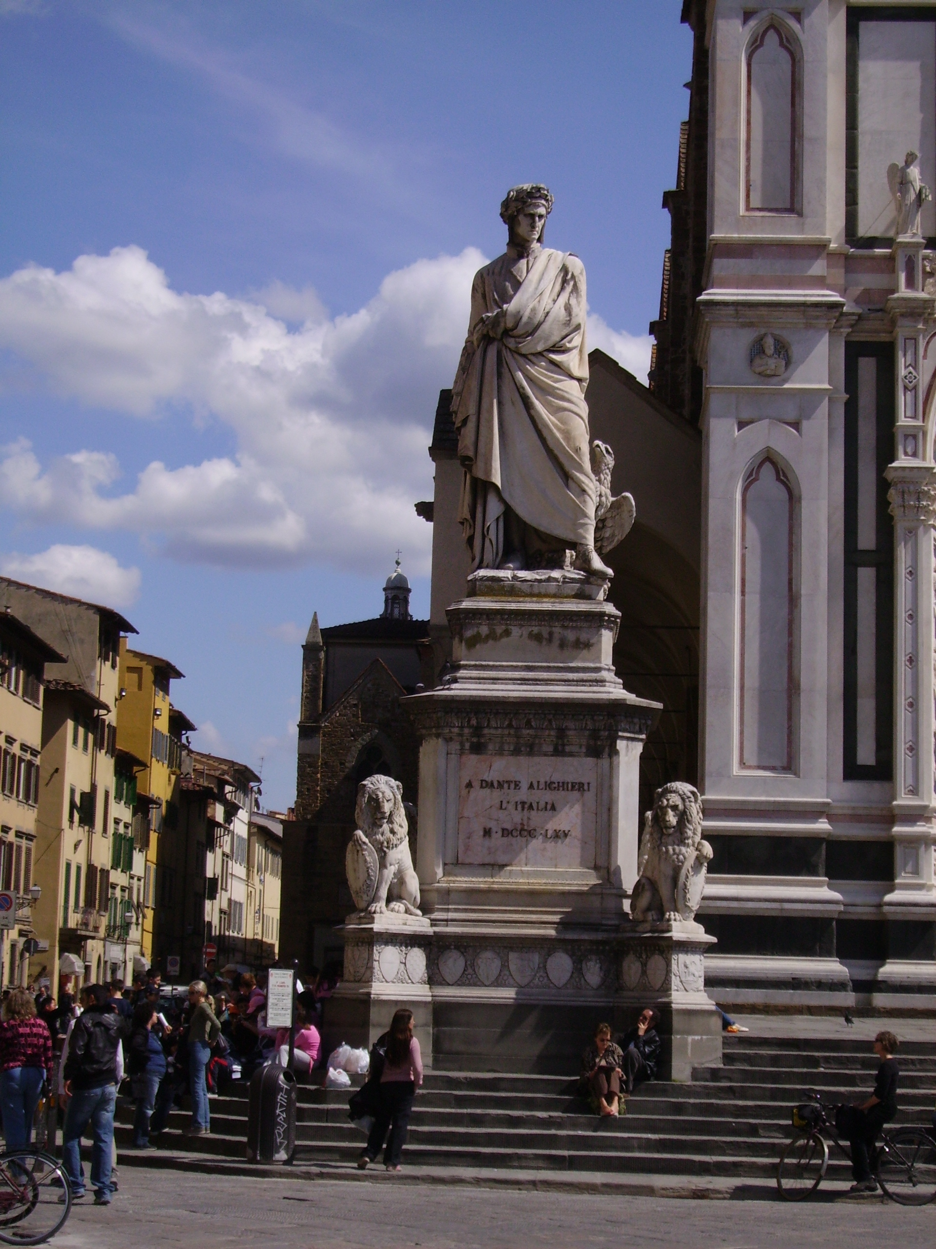 Dante Alighieri statue next to Santa Croce church, Florence (Italy)